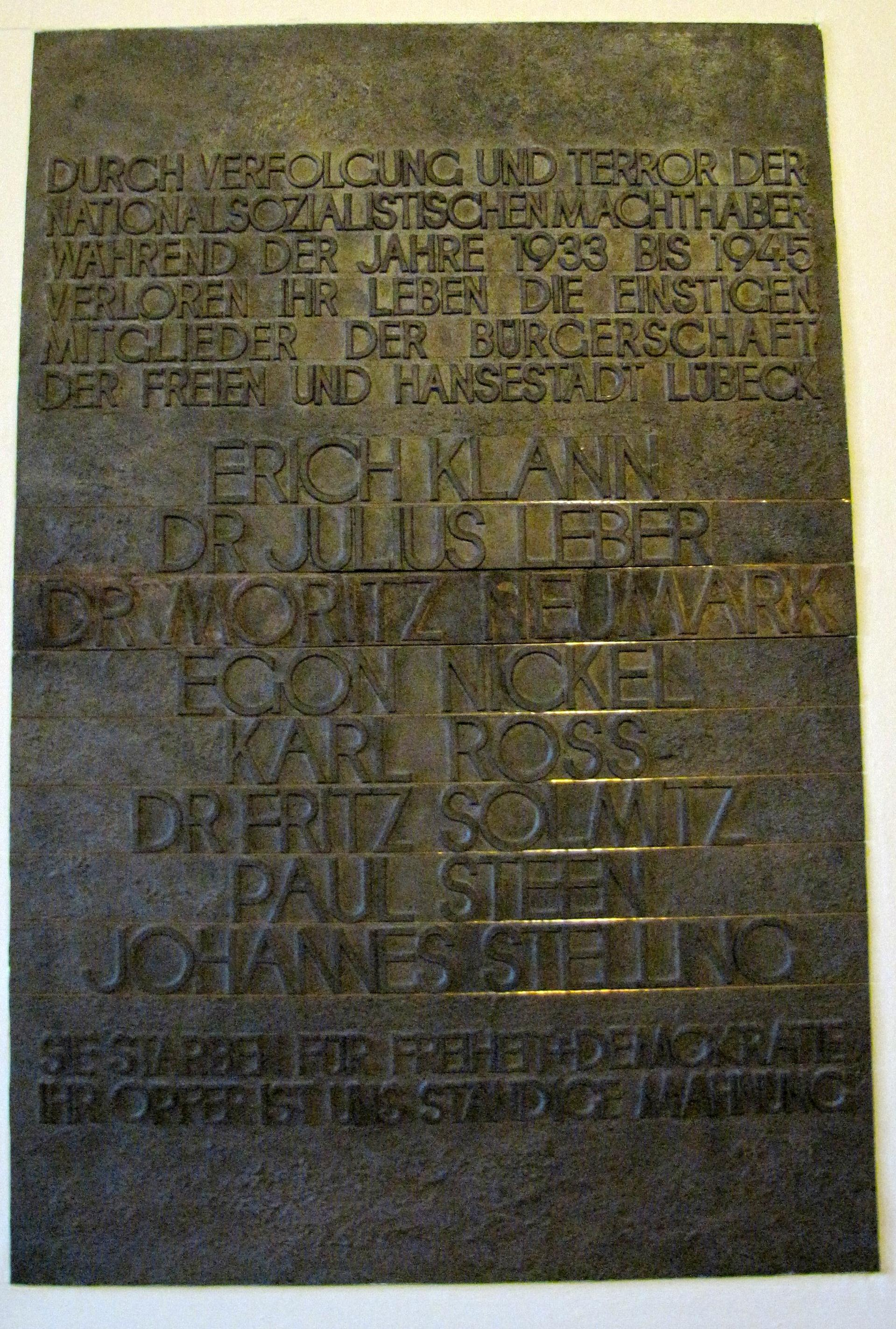 Memorial plaque in Lübeck town hall outside the Bürgerschaftssaal (plenary hall) commemorating those members of the Bürgerschaft (City Council) murdered by the NS regime